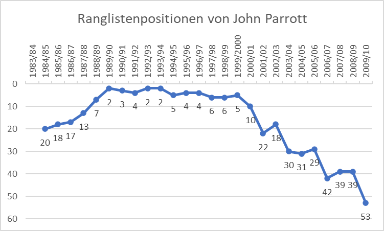 ranking positions of the english snooker player John Parrott; data